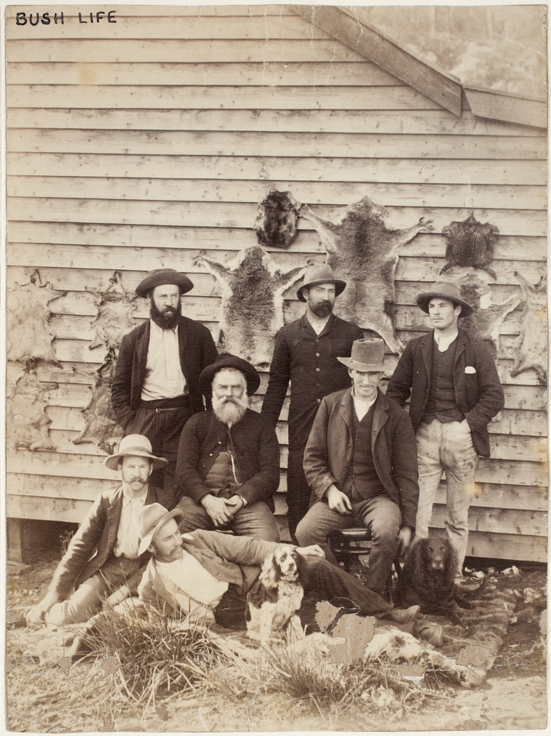 Group portrait of seven men with two spaniels in front of a wooden building with animal skins, including koala skins and probably an echidna skin, attached. Description from State Library of New South Wales